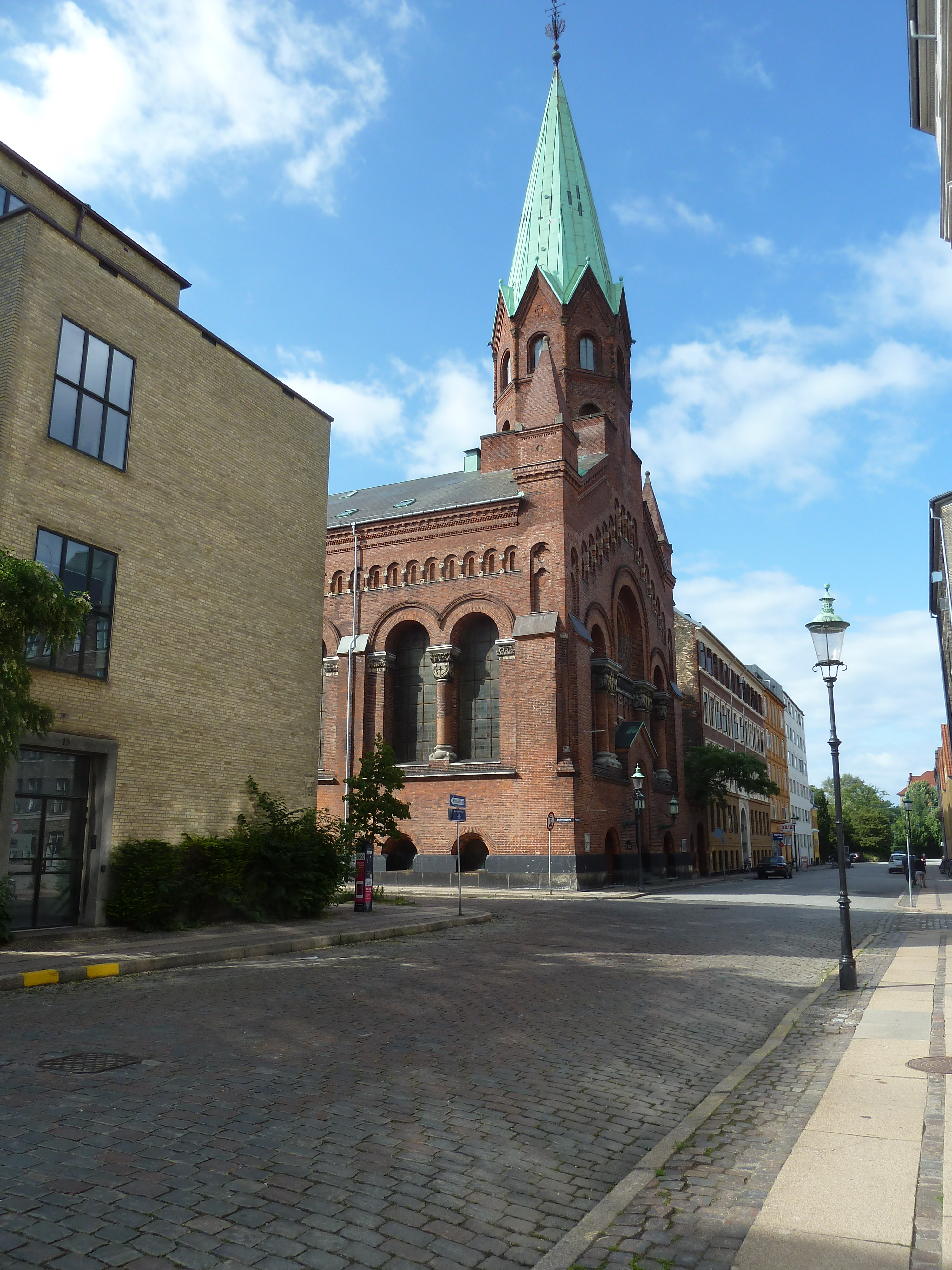 Jerusalemskirken in Rigensgade in Copenhagen, Denmark